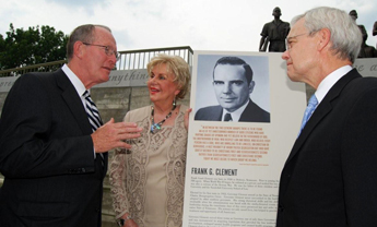 Sen. Lamar Alexander (far left), former Tennessee State Senator Anna Belle Clement O'Brien and former U.S. Representative Bob Clement discuss Gov. Frank G. Clement's courageous role in the desegration of Clinton High School during a ceremony at the Green McAdoo site in Clinton recently. “In 1956, one year before Central High School in Little Rock was integrated, Governor Clement and the citizens of Clinton did what they were supposed to do by enforcing the law and successfully integrating Clinton High School without federal intervention,” Alexander said. “The Clinton 12 bravely stood up and became the first students to enter a desegregated public high school in the South, and we need to honor their important place in our nation’s history. We also need to recognize the leadership and courage it took for Governor Clement to desegregate Clinton High without the need for federal armed forces. I think it is very important to honor the story of the Clinton 12 and what the Tennessee community and especially Governor Clement did a year before Little Rock Central by making this site a unit in the National Park System.”